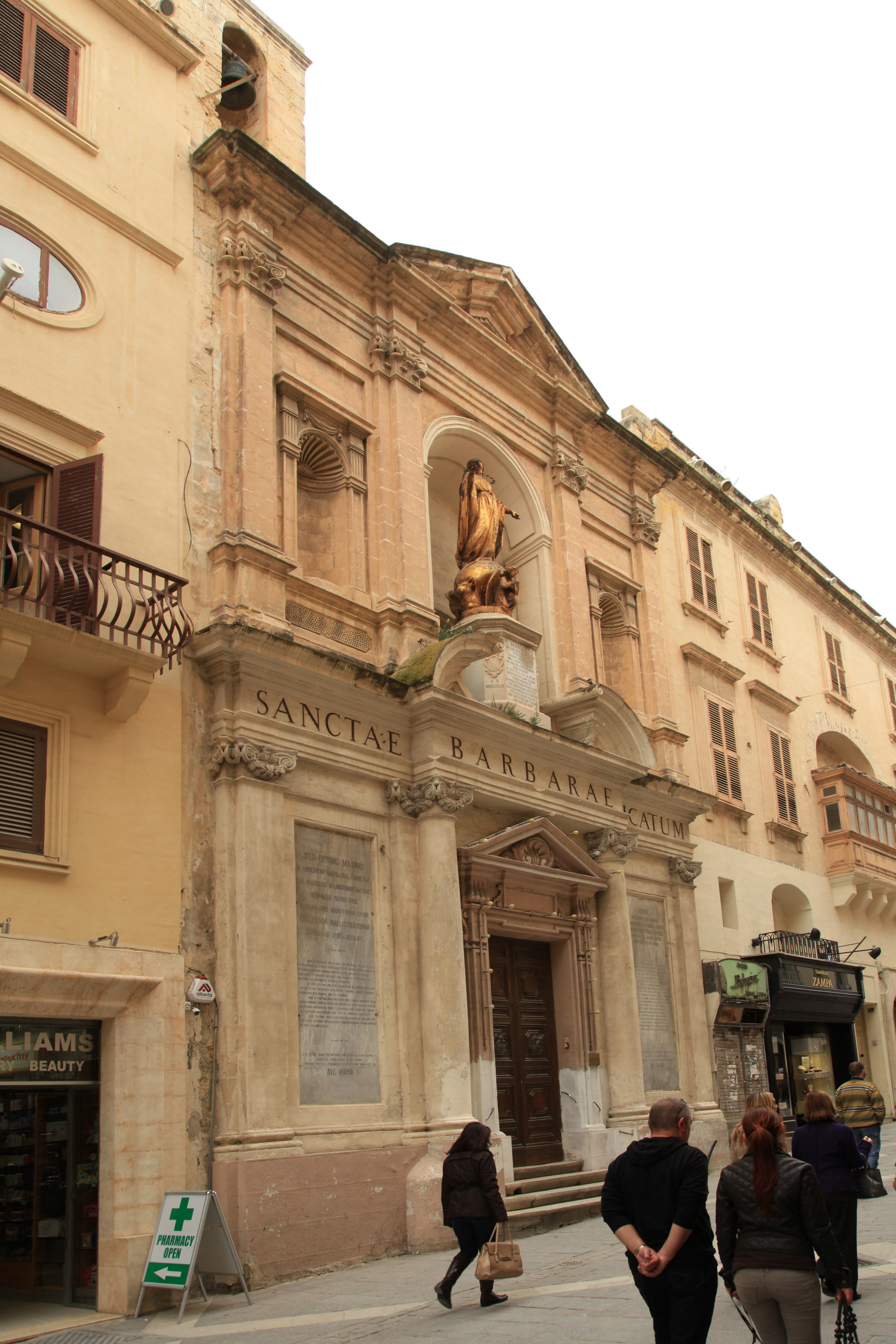 Sanctae Barbarae Dicatum Church, Triq ir-Repubblika in Valletta, Malta